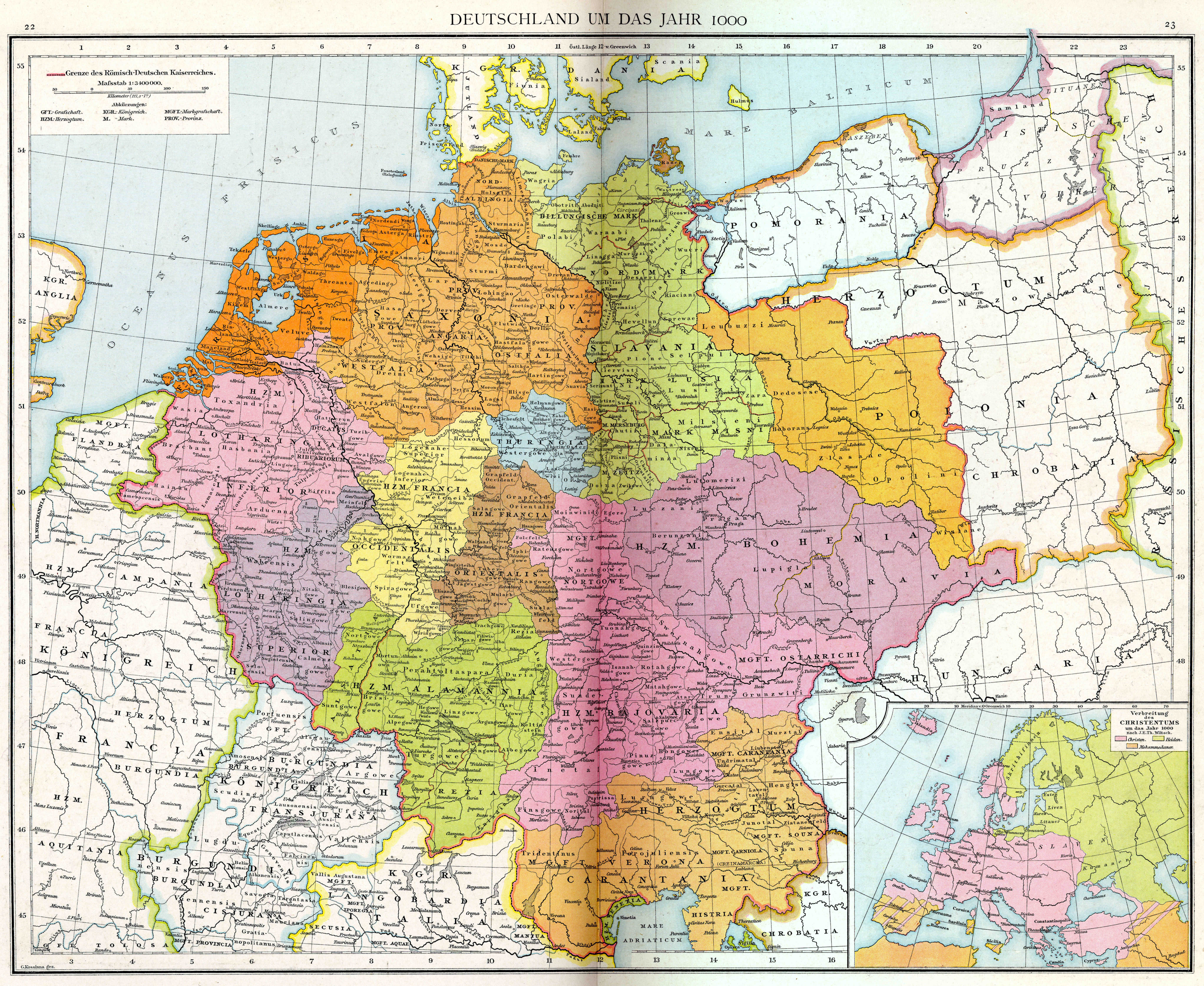 Plate 22 & 23 of Professor G. Droysens Allgemeiner Historischer Handatlas, published by R. Andrée.